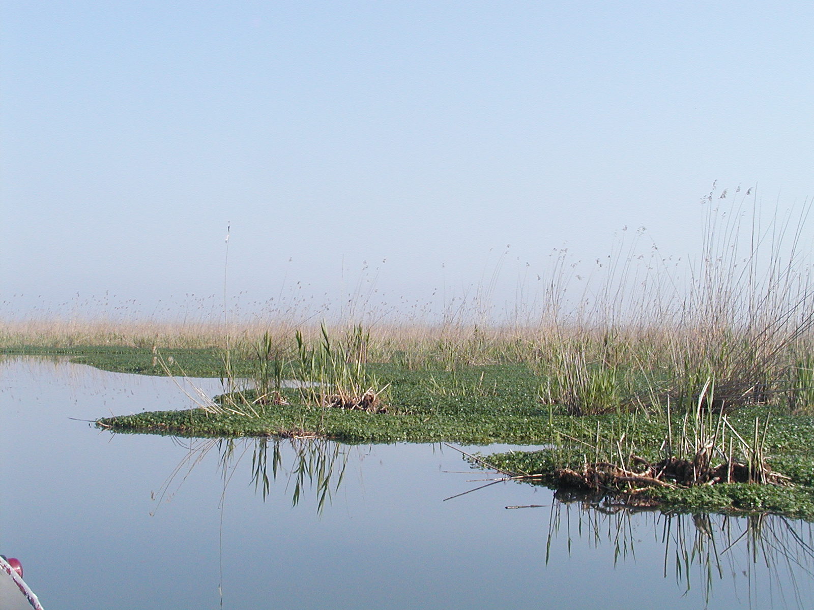 Anzali (Iran): Lagoon of the Caspian Sea